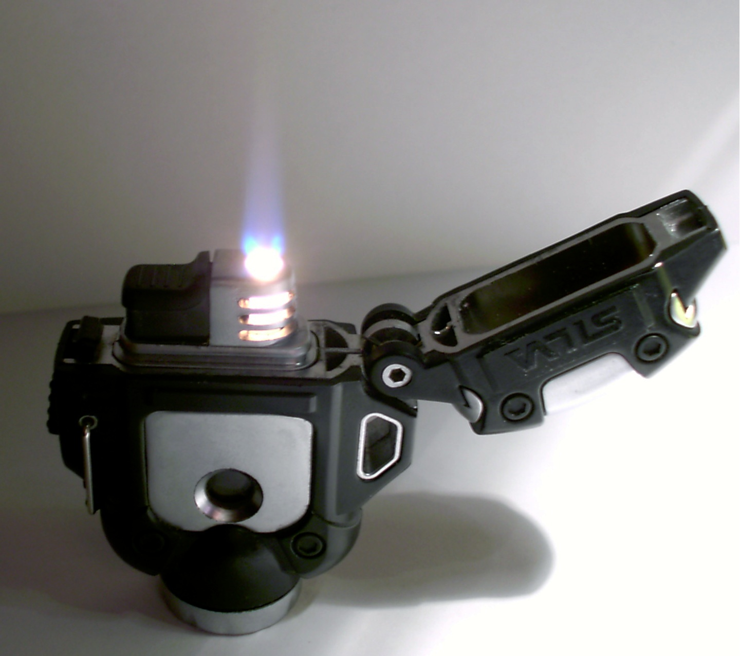 A Silva Helios rope burner/lighter. Piezoelectric ignition, butane fuel. Taken and released into the public domain by User:Kallemax. (PS: This image was pretty hard to get right, the flame only stays for a few seconds after the igniter is released)